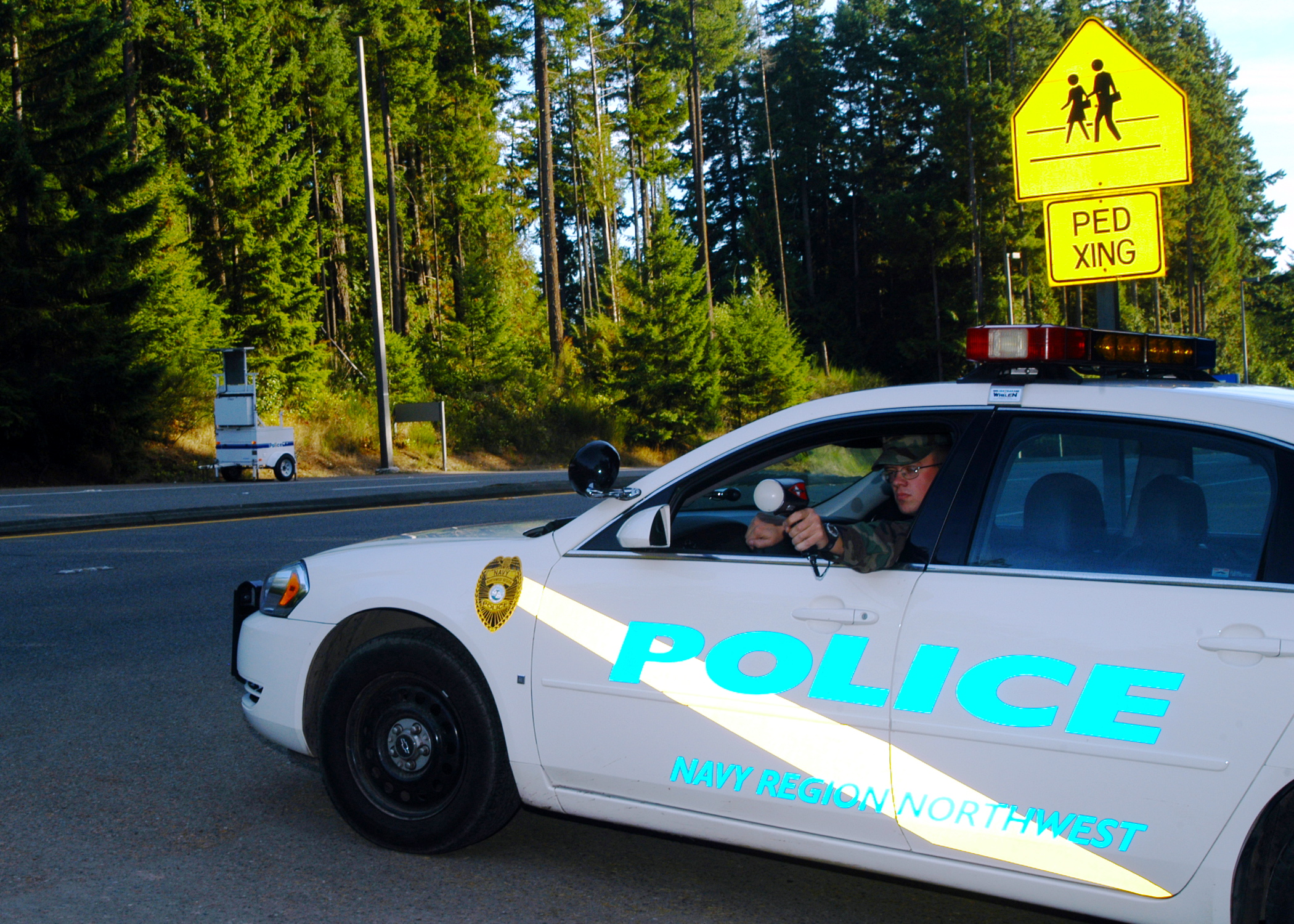 061022-N-3973P-002 Bangor, Wash. (Oct. 22, 2006) - Master-at-Arms 3rd Class Brandon Pauley of Naval Base Kitsap (NBK), Bangor Security uses a radar gun to track speeders at one of the on base check points. NBK Security is working to increase driver safety on base by increasing enforcing base wide traffic rules.